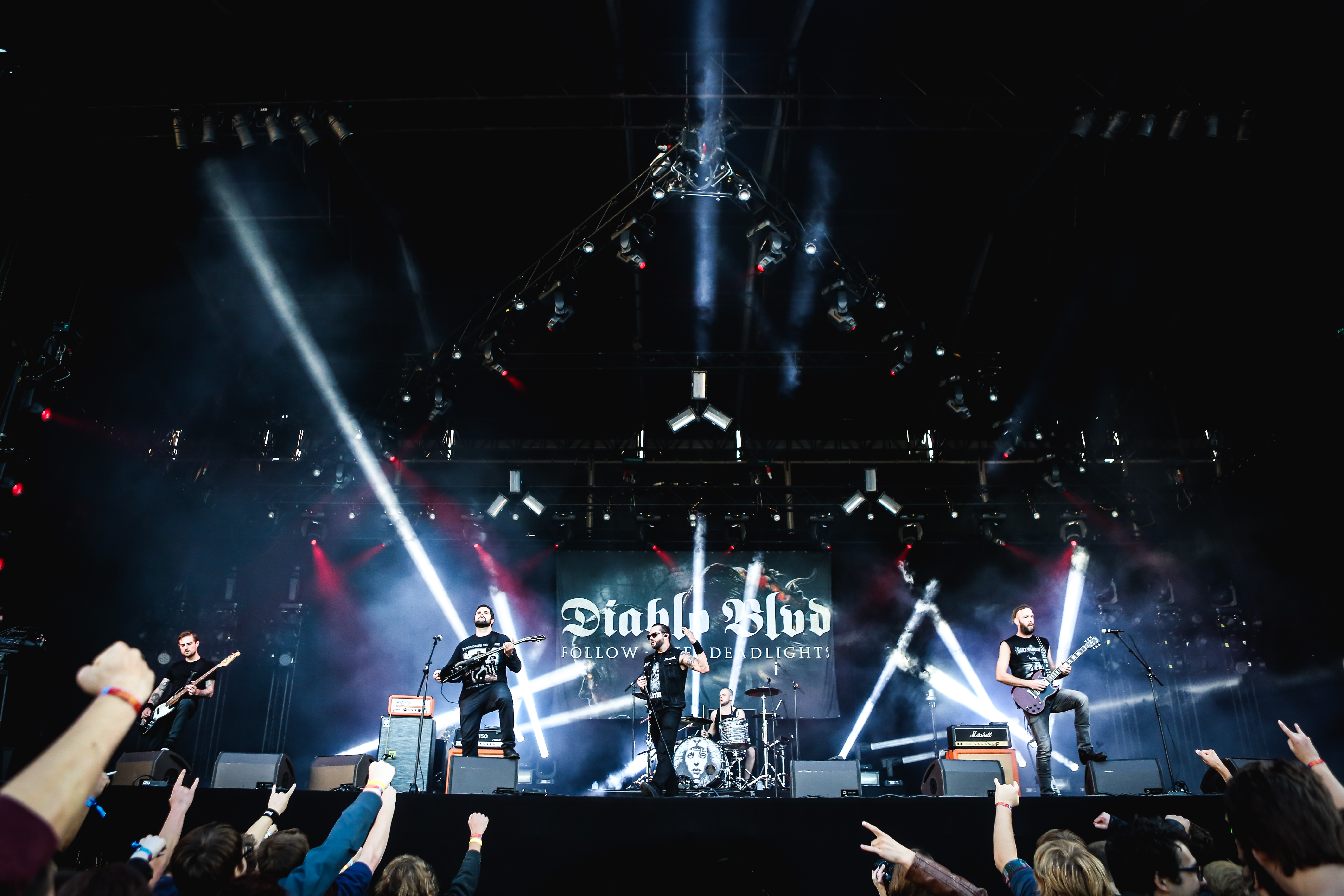 (c) Tim Tronckoe